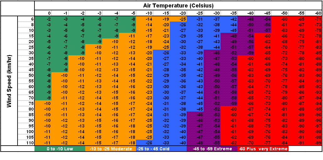 A wind chill chart I made in Excel using the formulas provided in the wikipedia article. This is based on the new formula for wind chill. The colour coding relates to the likelihood of frostbite. I will update the article with a break down of what the colours mean. Philbentley 19:47, 30 October 2006 (UTC)